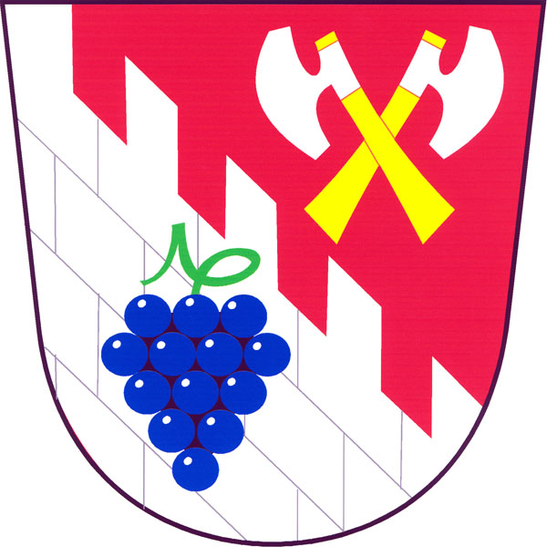 Municipal coat of arms of Mouchnice village, Hodonín District, Czech Republic.